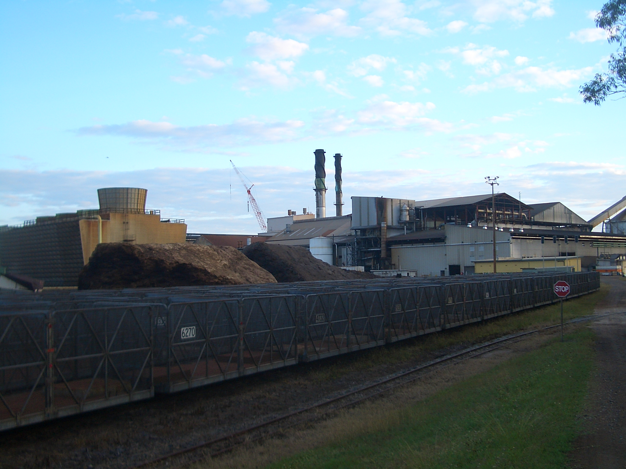 Sugar mill in Proserpine, Queensland, and the mill's narrow-gauge (2 feet) railway .